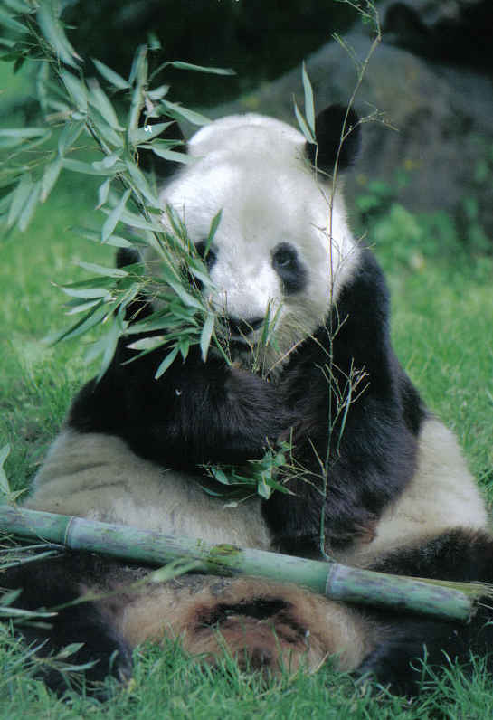 Yan Yan (* c1985; † 26. March 26, 2007) was a female Giant Panda (Ailuropoda melanoleuca), who lived in the Berlin Zoo.